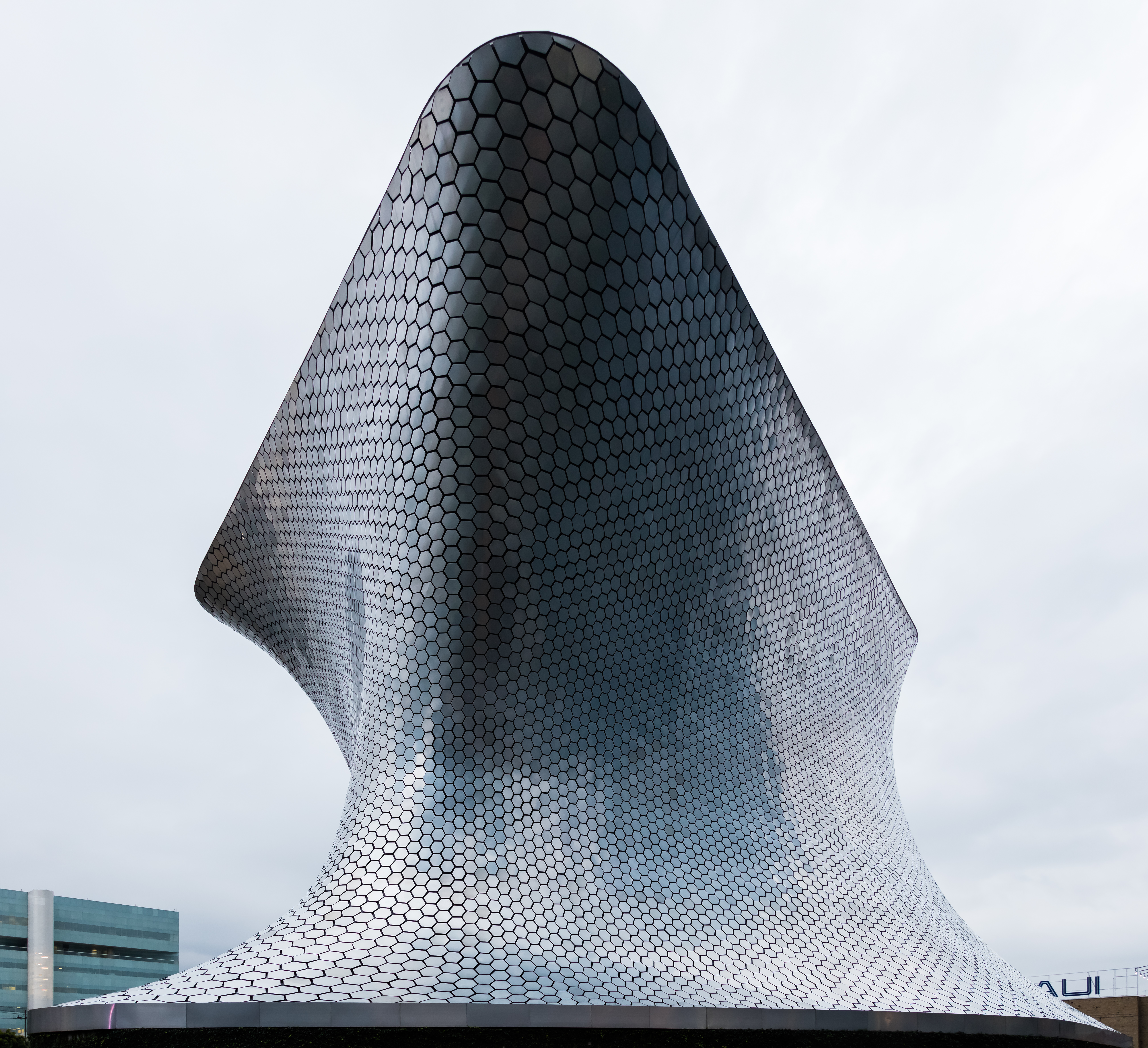 Building of the Soumaya Museum located in Plaza Carso, Nuevo Polanco area, Mexico City, Mexico. The building, work of architect Fernando Romero, was inaugurated in 2011 by the former president Felipe Calderón Hinojosa. The museums belongs to the homonymous cultural institution, a non-profit organisation dedicated to the maintenance, exposition, research and difusion of the art collection of the Carlos Slim Foundation. The museum's name honours the memory of Soumaya Domit, wife of the museum's founder, Carlos Slim, who died in 1999.